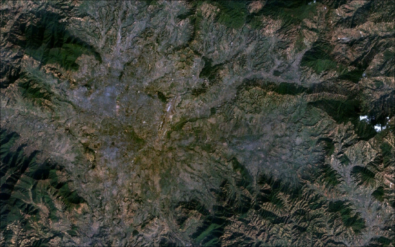 Satellite view of the Kathmandu-Valley (Nepal) true colors